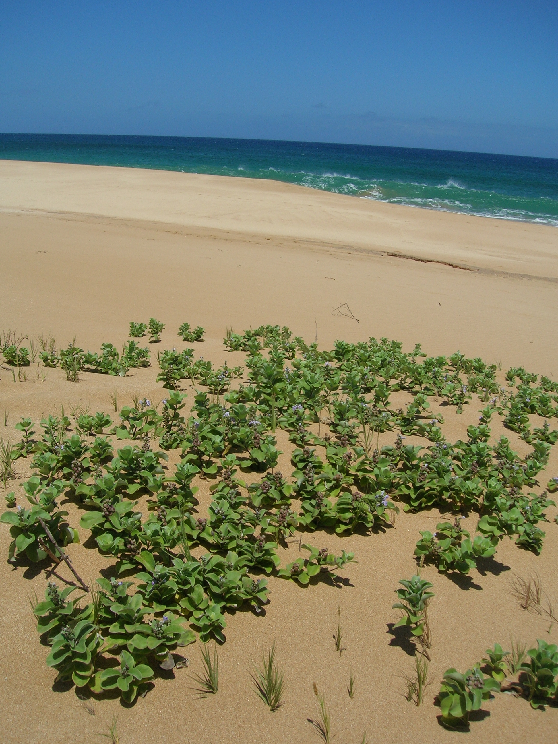 Vitex rotundifolia (habit). Location: Molokai, Papohaku